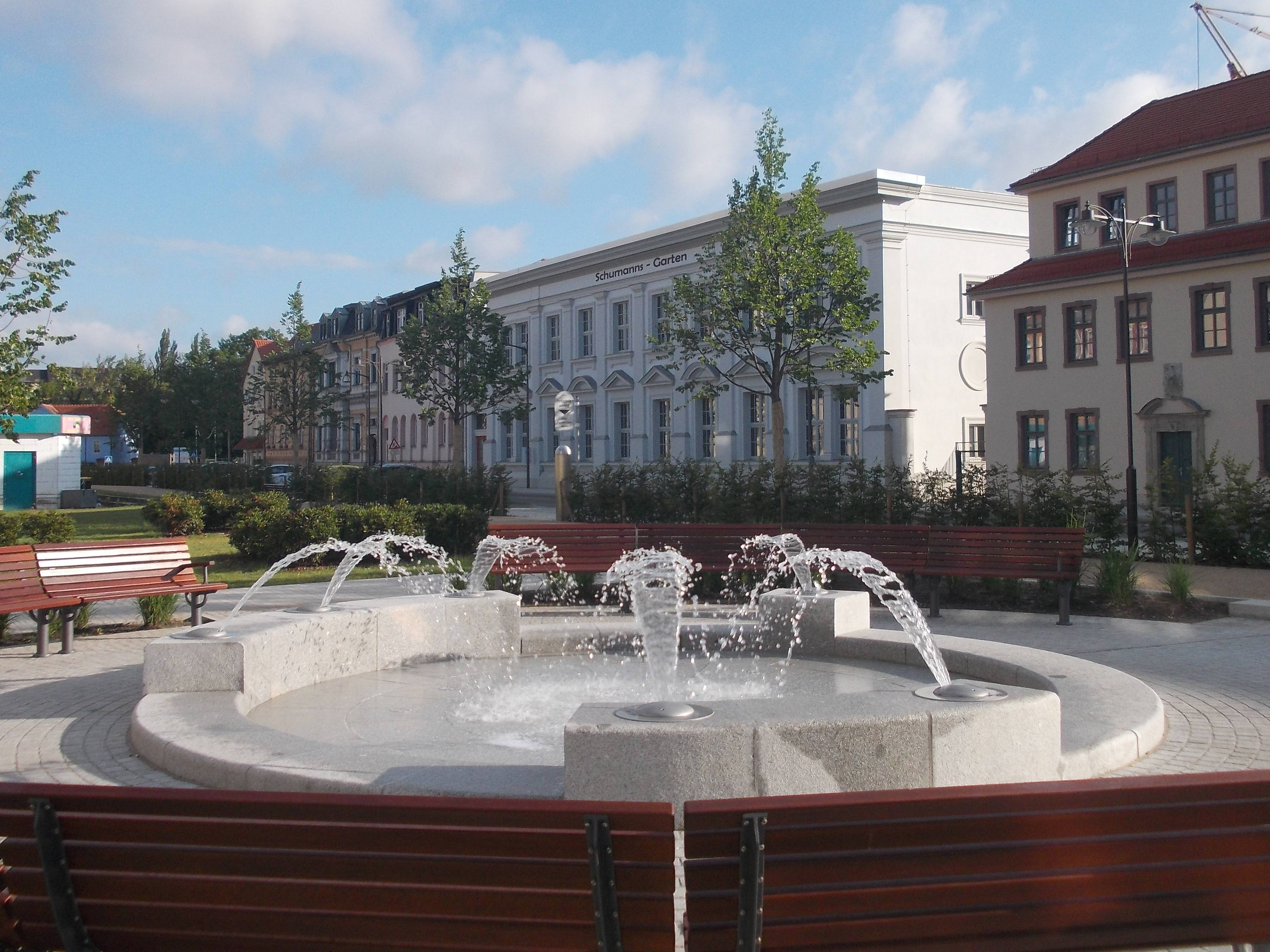 Fountain on the Promenade in Weissenfels (district: Burgenlandkreis, Saxony-Anhalt)